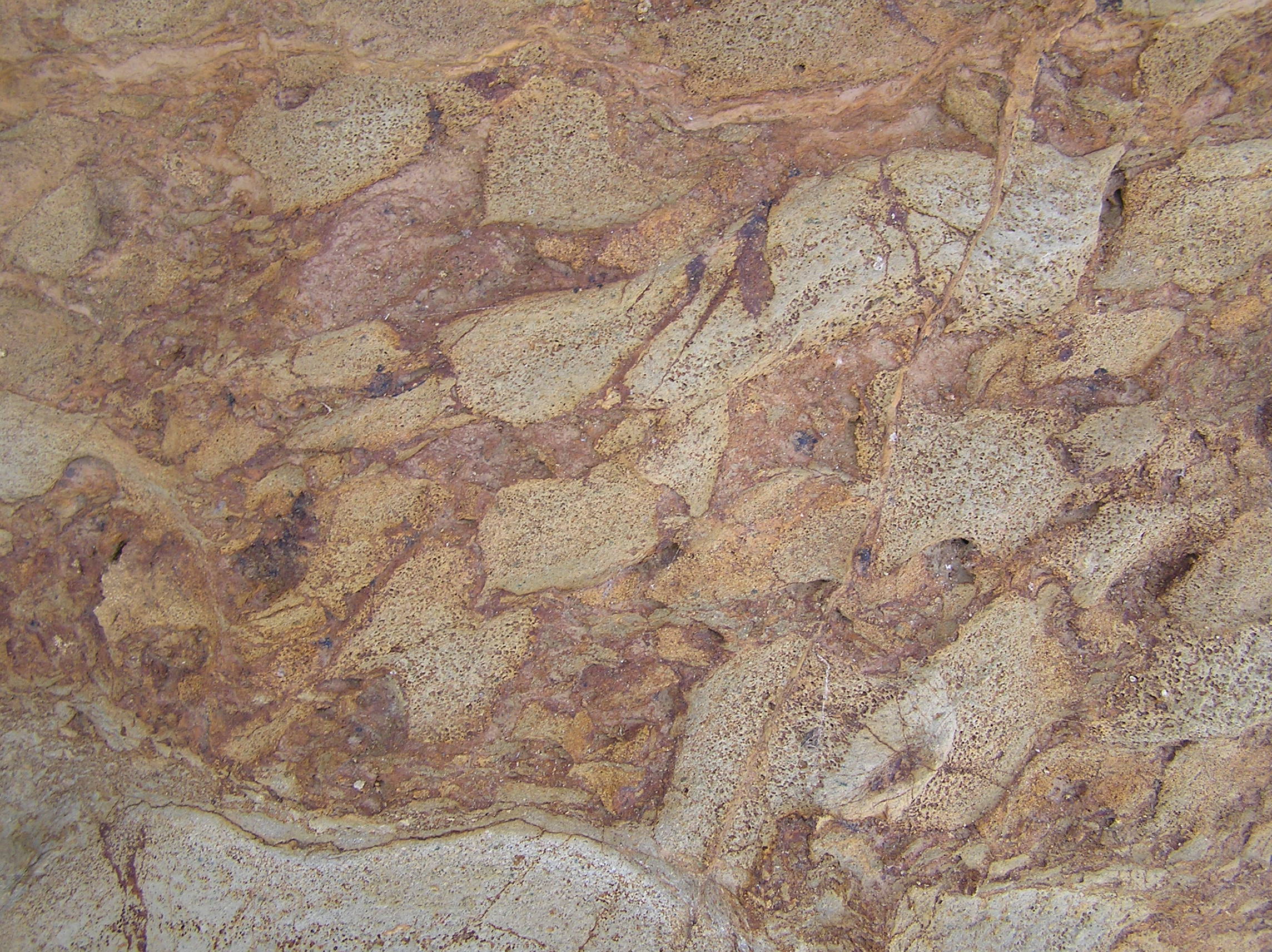 Melange or breccia from Surf Beach, Narooma, NSW, Australia